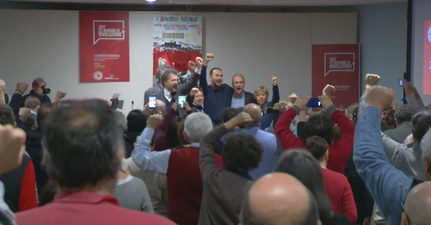 A picture from the 10th national congress of the Communist Refoundation Party.